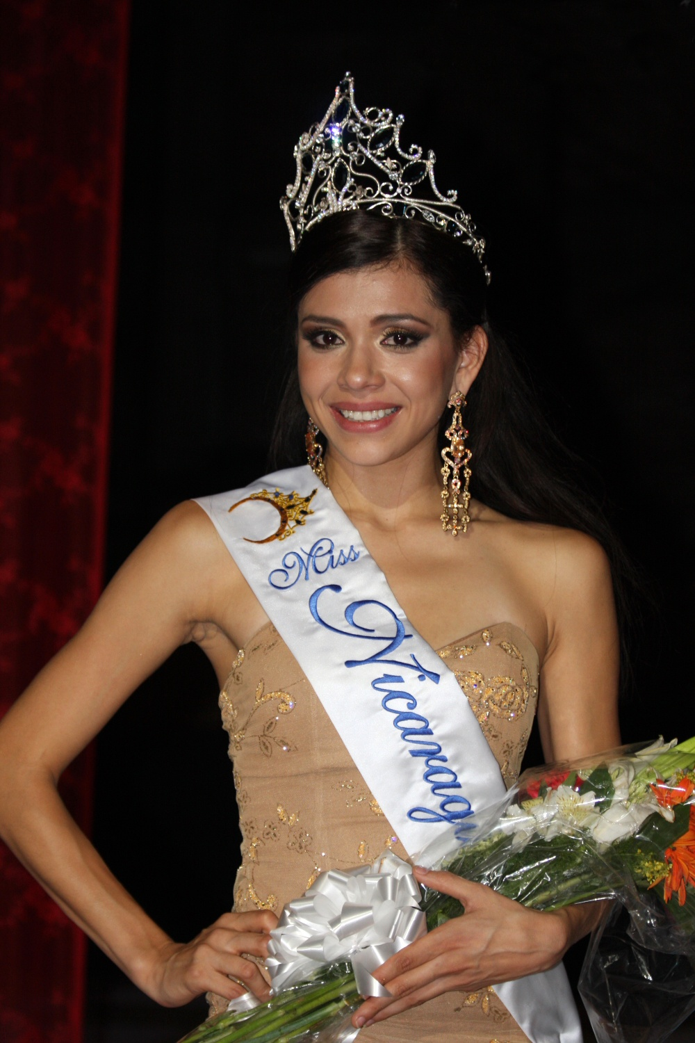 Miss Nicaragua Indiana Sanches